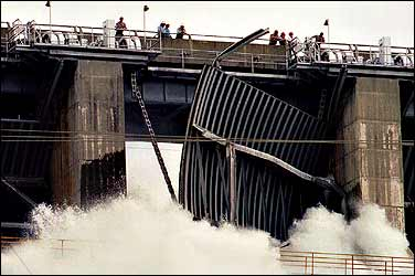 Folsom Dam spillway gate failure in 1995 - showing discharge of 40,000 cubic feet persecond. Original source credits photograph to U.S. Bureau of Reclamation.